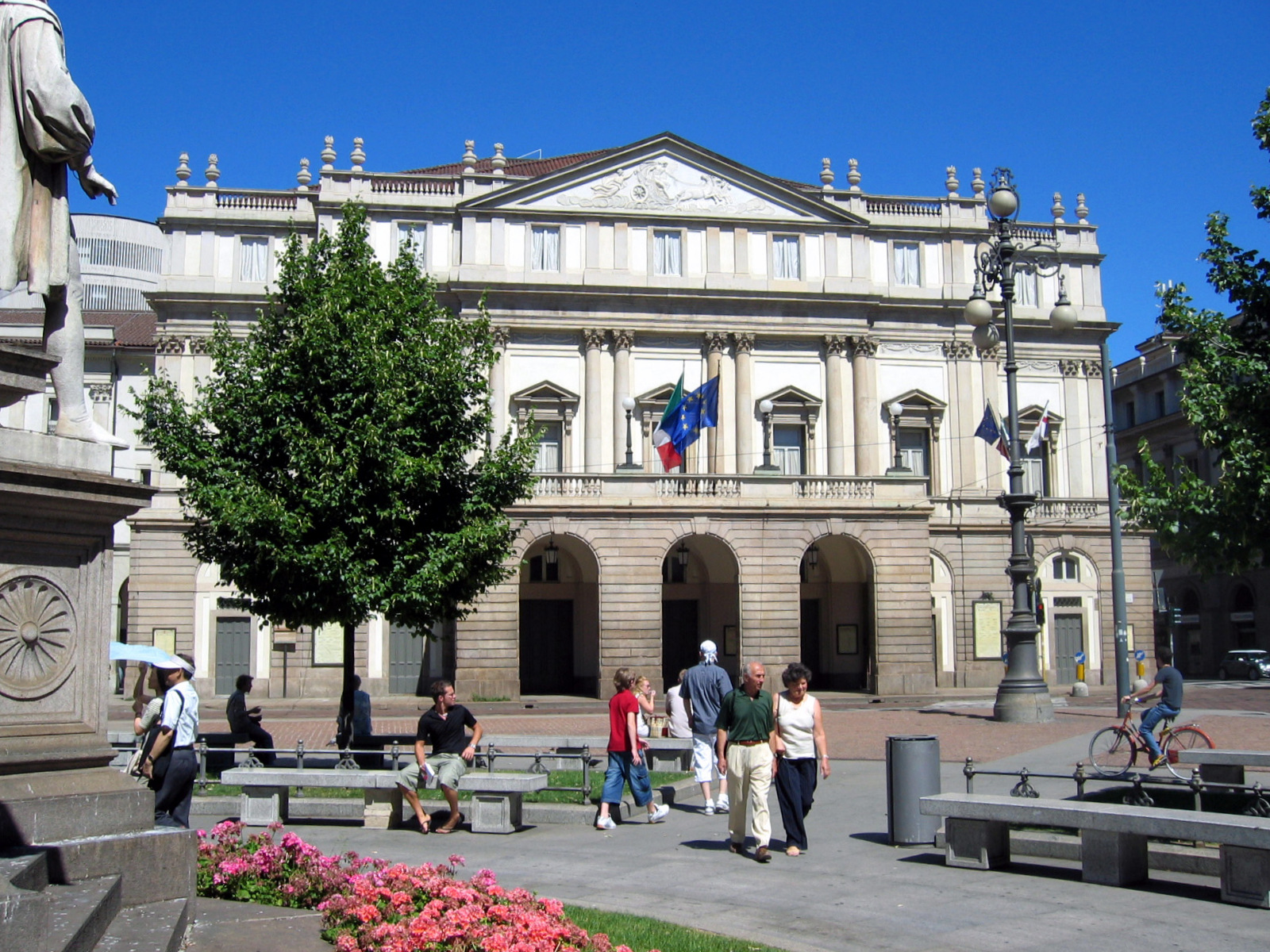 Italy, Milano / Mailand, Teatro alla Scala